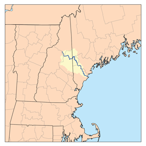 This is a map of the Saco river watershed. I, Karl Musser, created it based on USGS data.